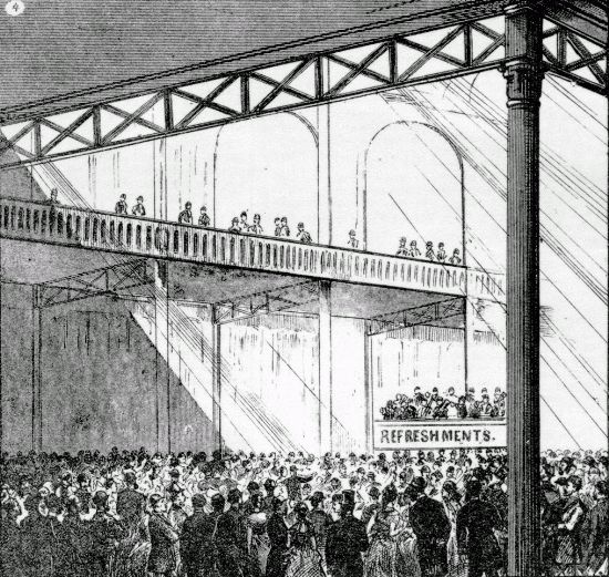 Interior of the Crystal Palace, Montreal [4.] [Incidents of the Week]